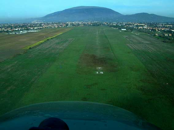 Foligno (Italy) airport grass runway